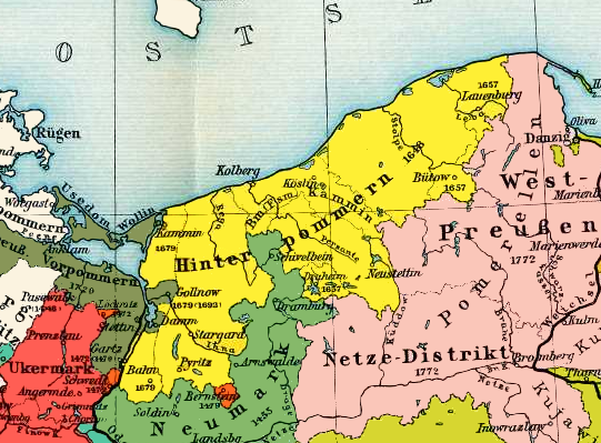 Map of Farther Pomerania from the Putzgers Historischer Schul-Atlas (Putzger History School Atlas)